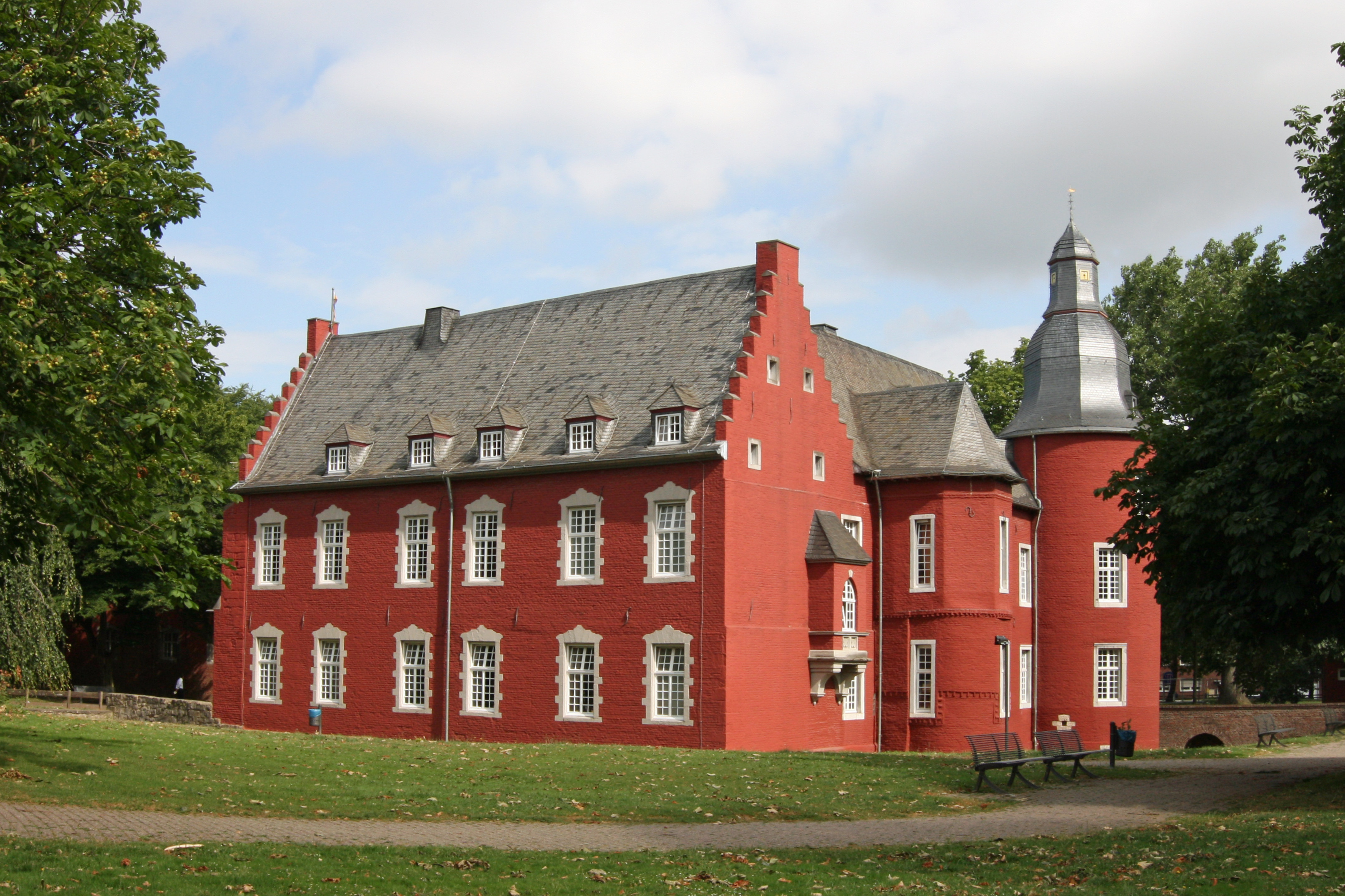 Alsdorf_castle,_former_moated_castle